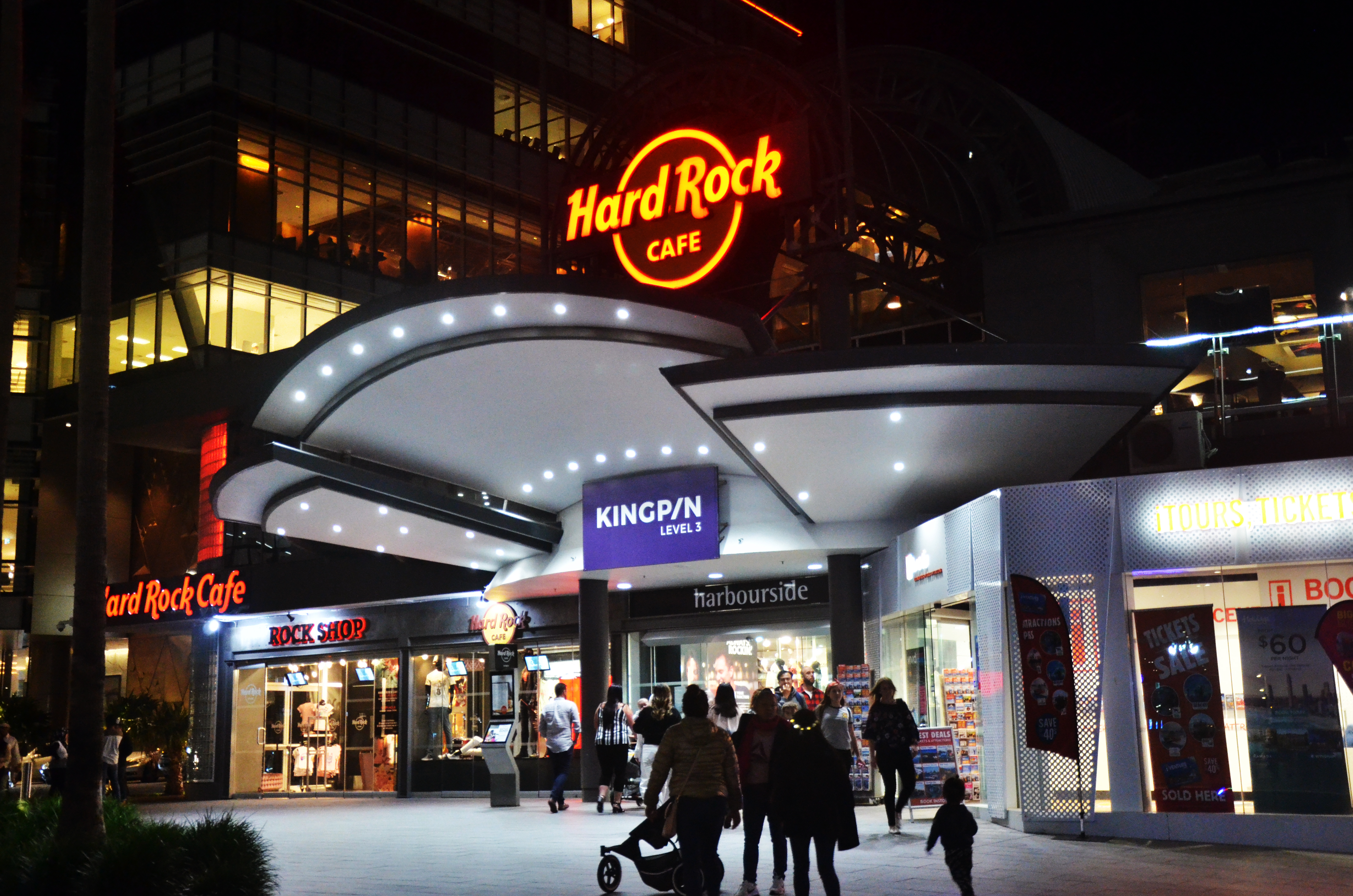 Harbourside, Darling Harbour at Night 2019